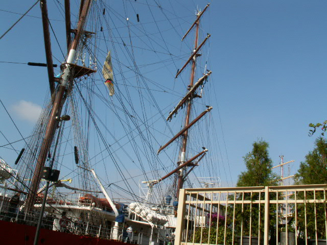 Three-master rigging Author: Mathieu Dréo (User:Nojhan) Date: 2005, august, 21 Notes: Taken in Amsterdam, during Sail 2005.